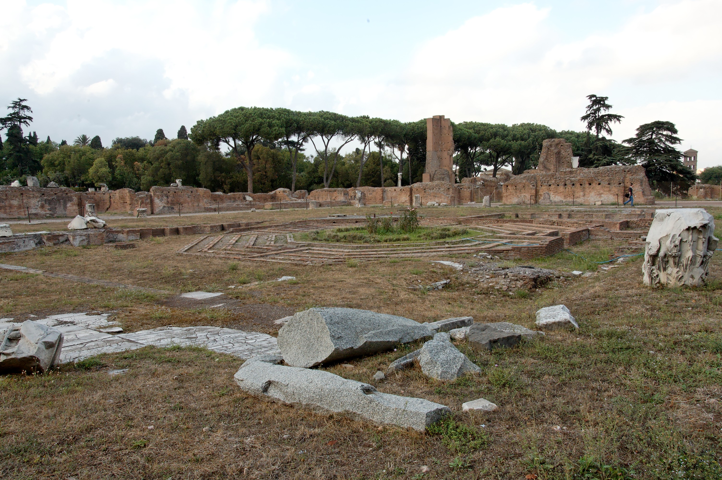 see abovesee above